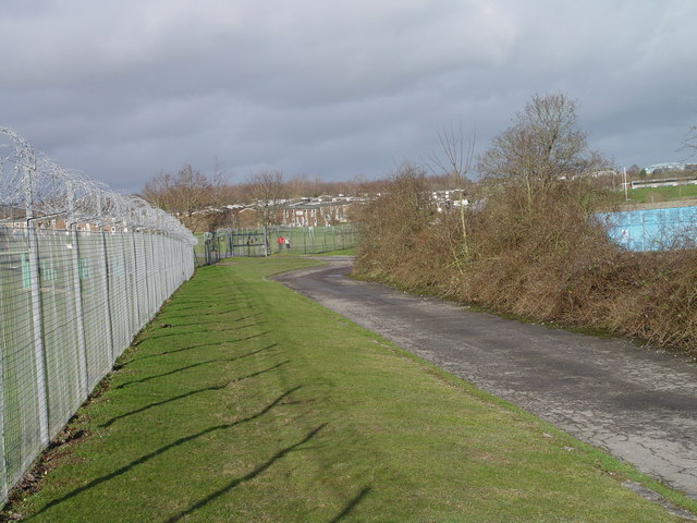 Blandford Camp View to rear gate of the camp. The footpath used to run up through the camp but is now diverted around the perimeter fence